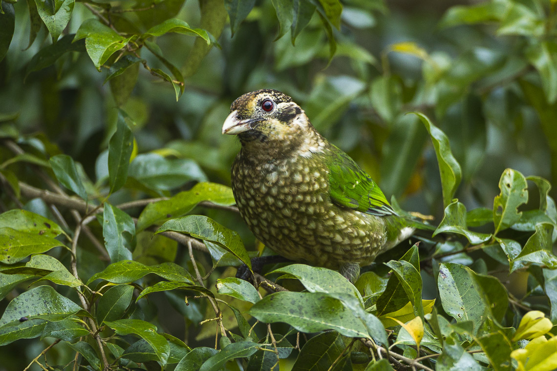 Spotted Catbird - Lake Eacham - Queensland_S4E7917